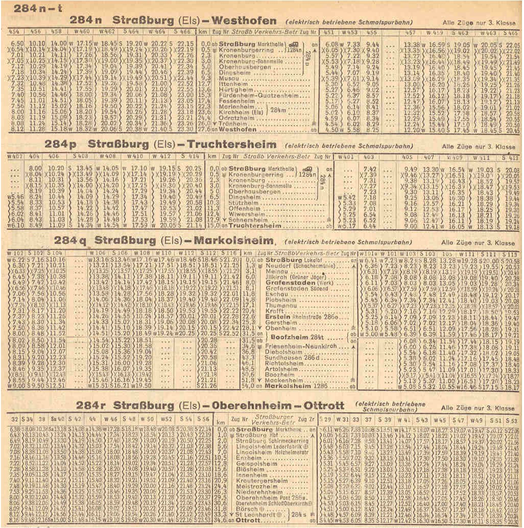 Timetable / Fahrplan Überlandnetz Straßburger Straßenbahn (Now in France, but at the time in German occupation).